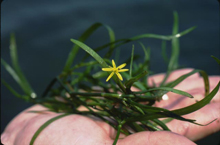 Heteranthera dubia. NOAA photo, no copyright.